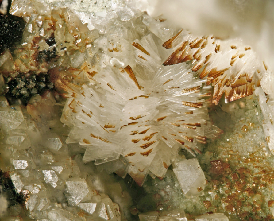 Eudidymite and Dolomite Locality: Poudrette quarry (Demix quarry; Uni-Mix quarry; Desourdy quarry), Mont Saint-Hilaire, Rouville RCM, Montérégie, Québec, Canada The main rosette is about 7 mm in diameter. Found May 1997